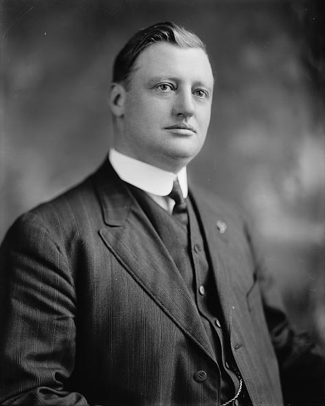 Congressman Benjamin I. Taylor of New York